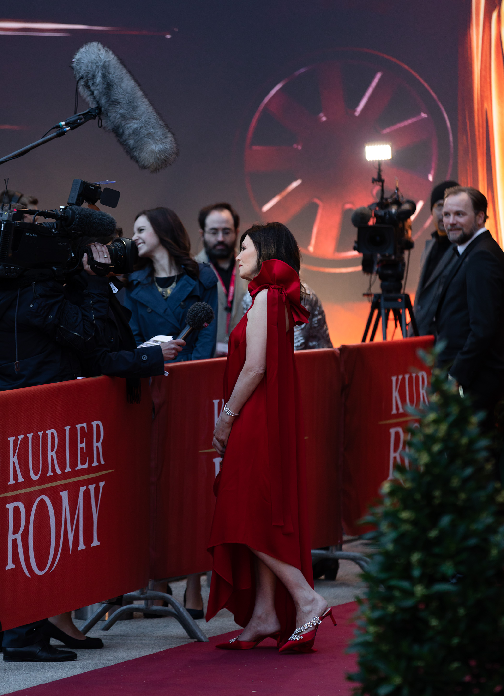 Iris Berben on the red carpet of the Romy TV awards 2018 at Hofburg Palace in Vienna, Austria.